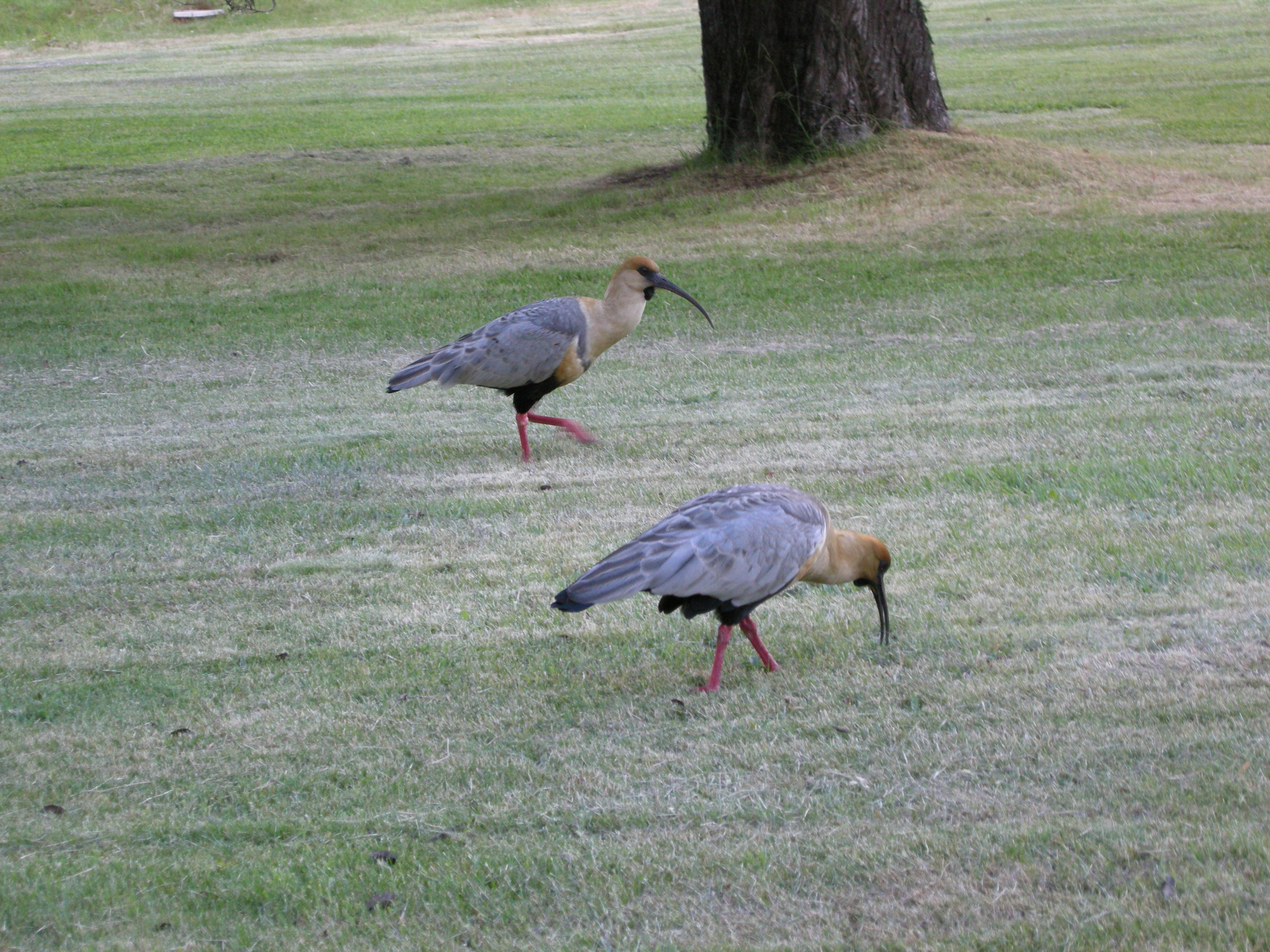 Two individuals of Theristicus melanopis, in the welcoming part of Los Alerces National Park (Chubut province, Argentina).